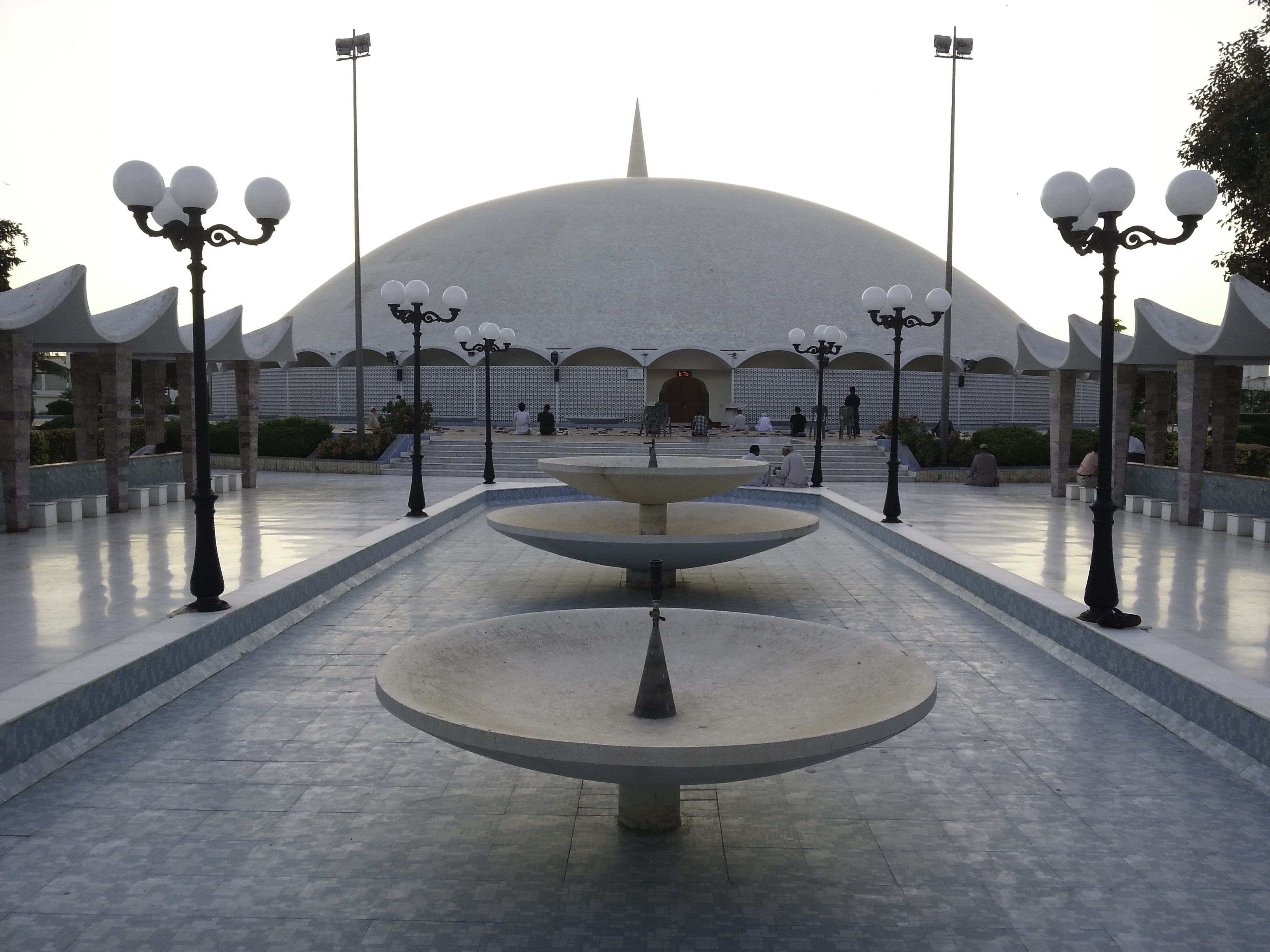 Masjid e Tooba This is a photo of a monument in Pakistan identified as the SD-U-19